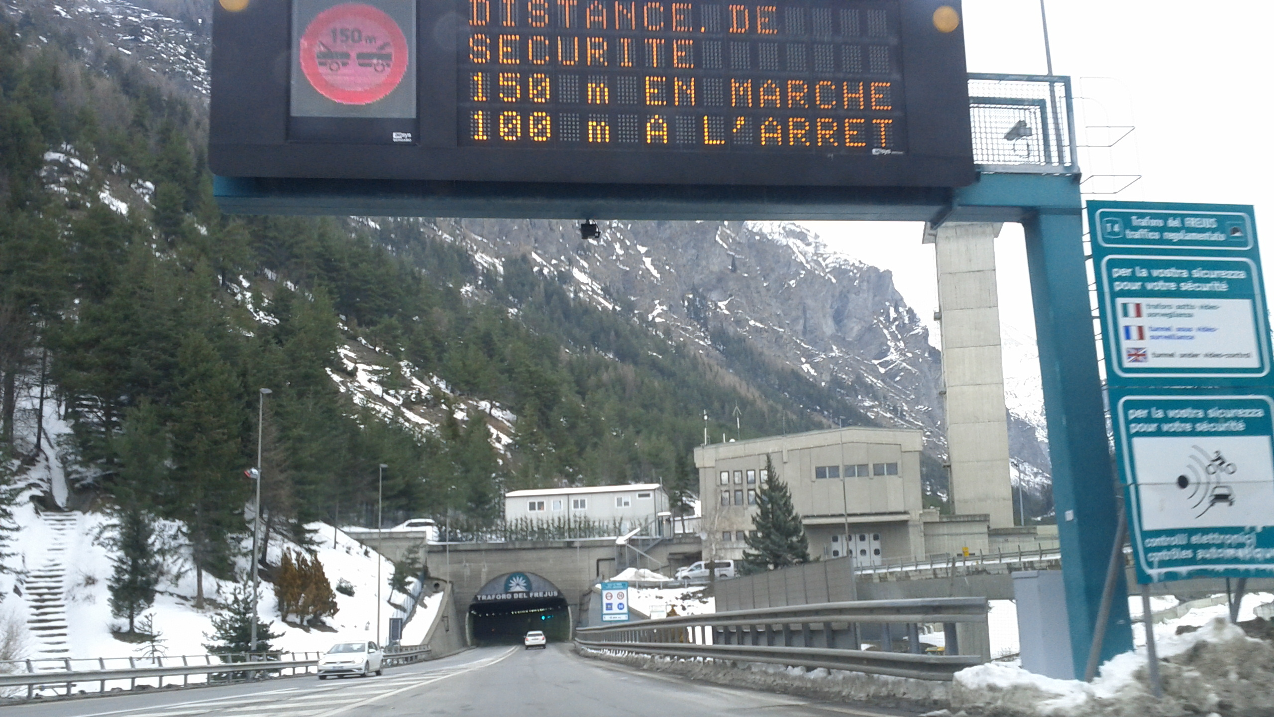 Entrance to the Frejus Road Tunnel from the Italian side in February 2019